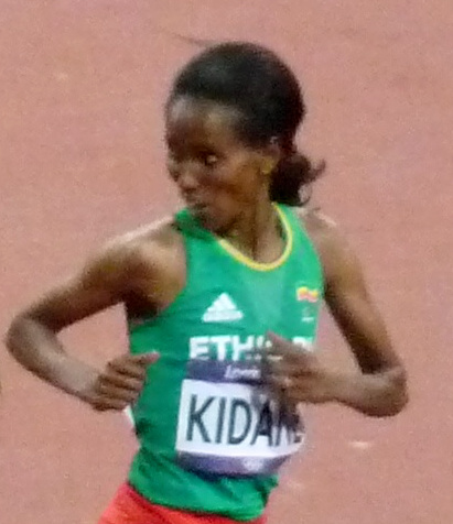 Women's 10k Final, Werknesh Kidane